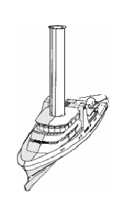 Drawing of the Calypso II, a rotorship, planed by J.Cousteau, but not build up till yet.